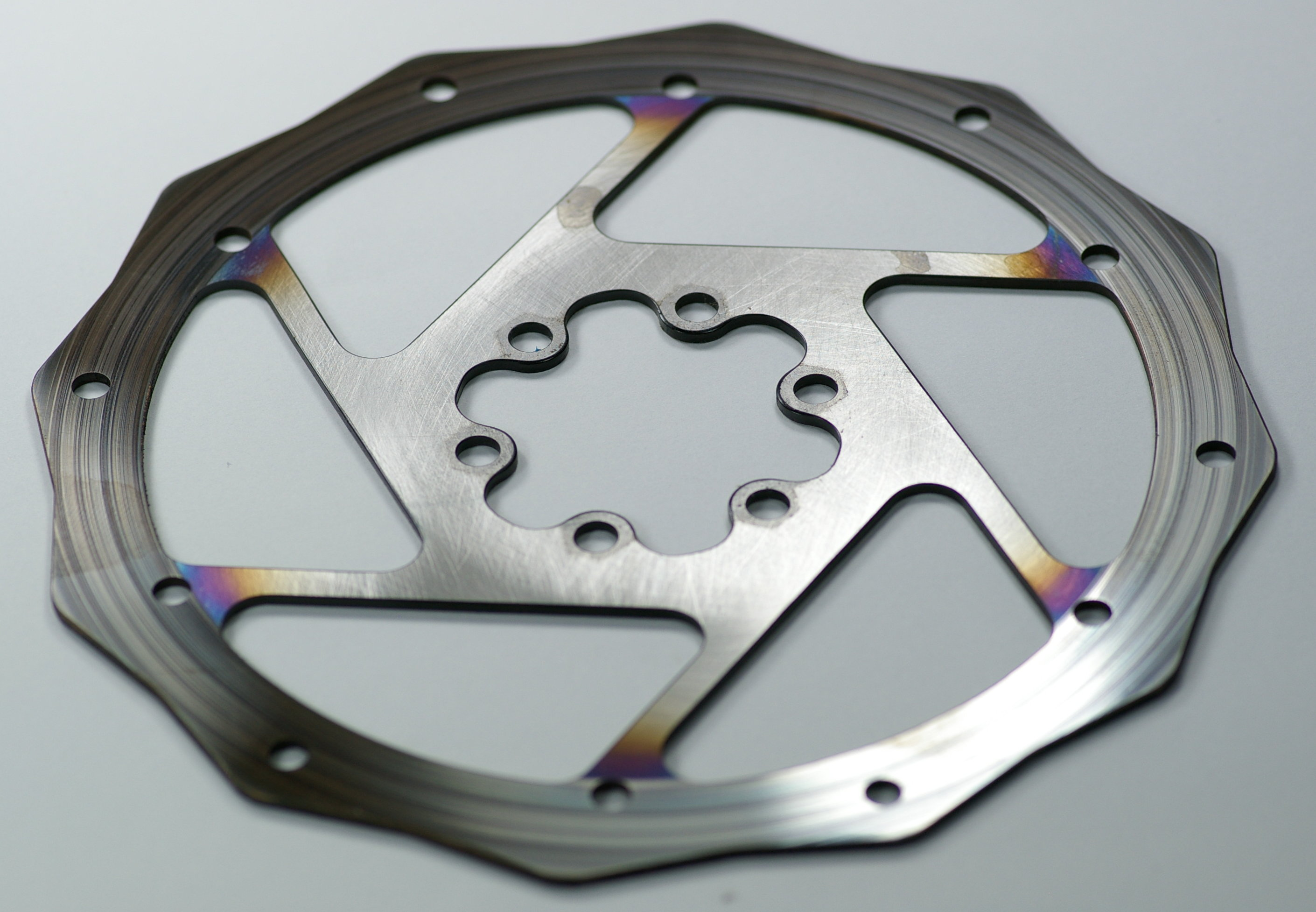 A bicycle disc brake rotor that got hot, leaving the inside edge yellow to blue, through heat tinting. The rotor is pure stainless steel, with no tints or such. This is an Avid Roundagon brake rotor.